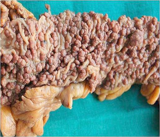 Cut open section of colectomy specimen showing hundreds of small polyps throughout the entire colon